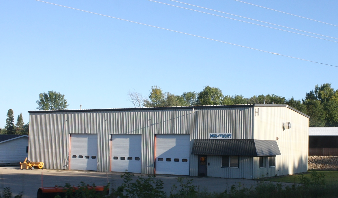 The town hall for Wescott, Wisconsin along Wisconsin Highway 55.